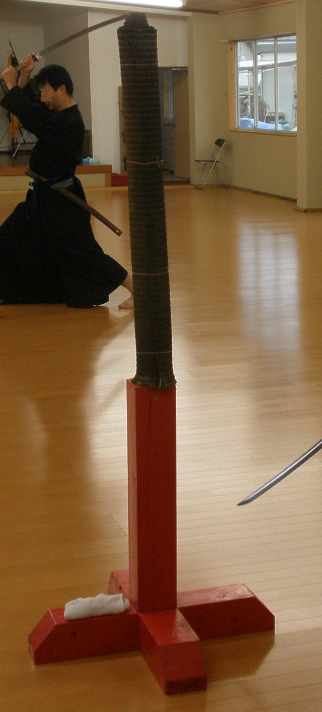 makiwara